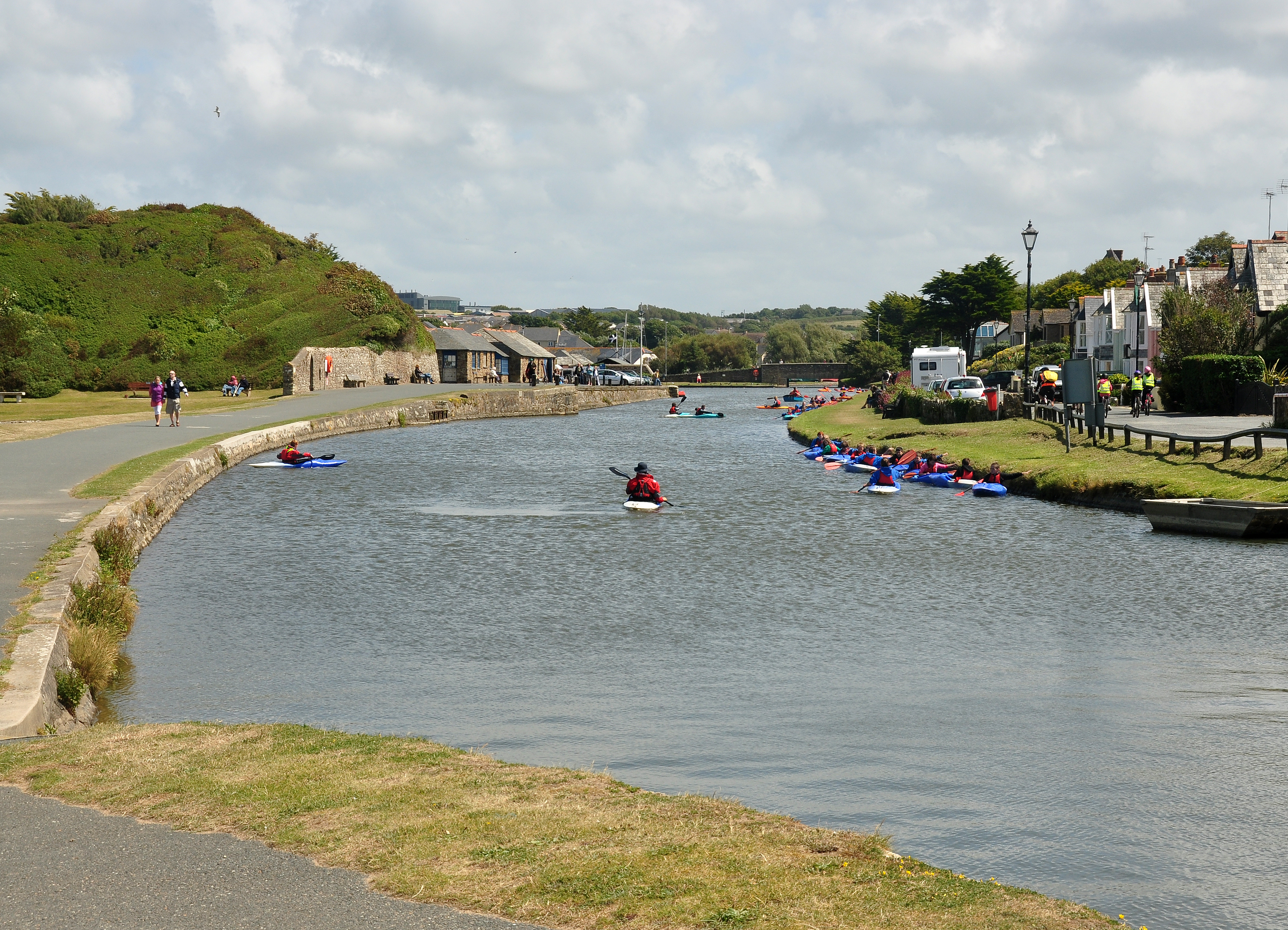 The Bude Canal in Bude, Cornwall, just above the sea locks. There are a number of kayaks on the canal.